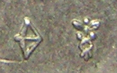 Privy mark (left) of drs. Chr. van Draanen and mint mark of the Koninklijke Nederlandse Munt on a Dutch coin.